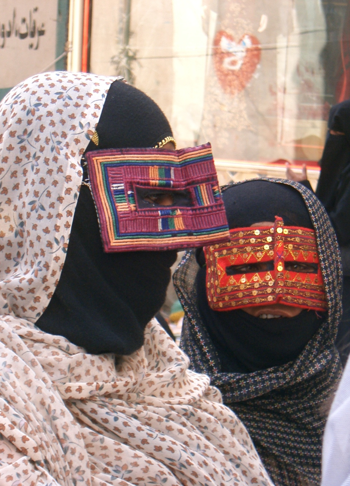 Women wearing battula in Bandar Abbas (south Iran).